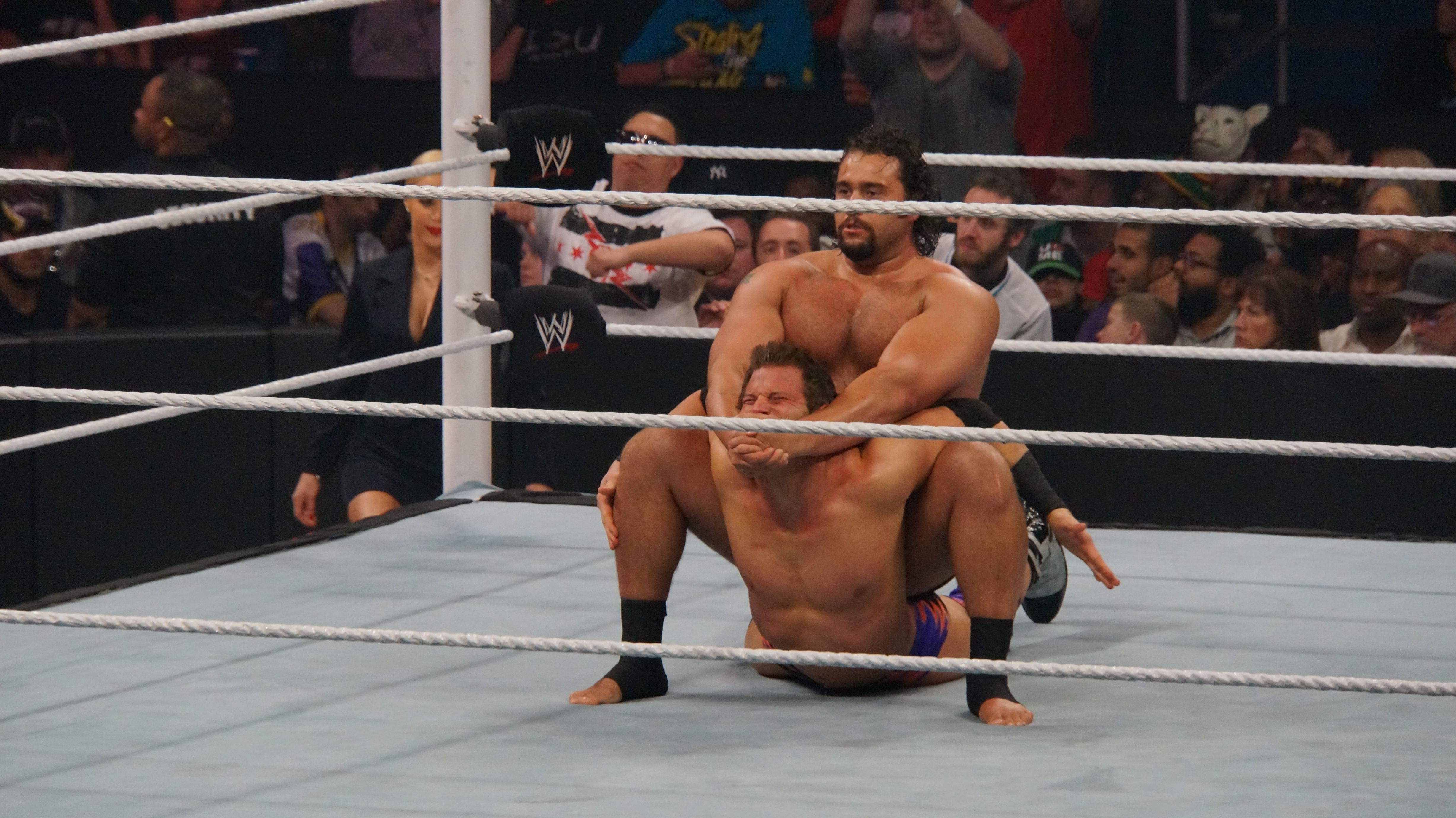 Alexander Rousev applying a Camel Clutch against Zack Ryder